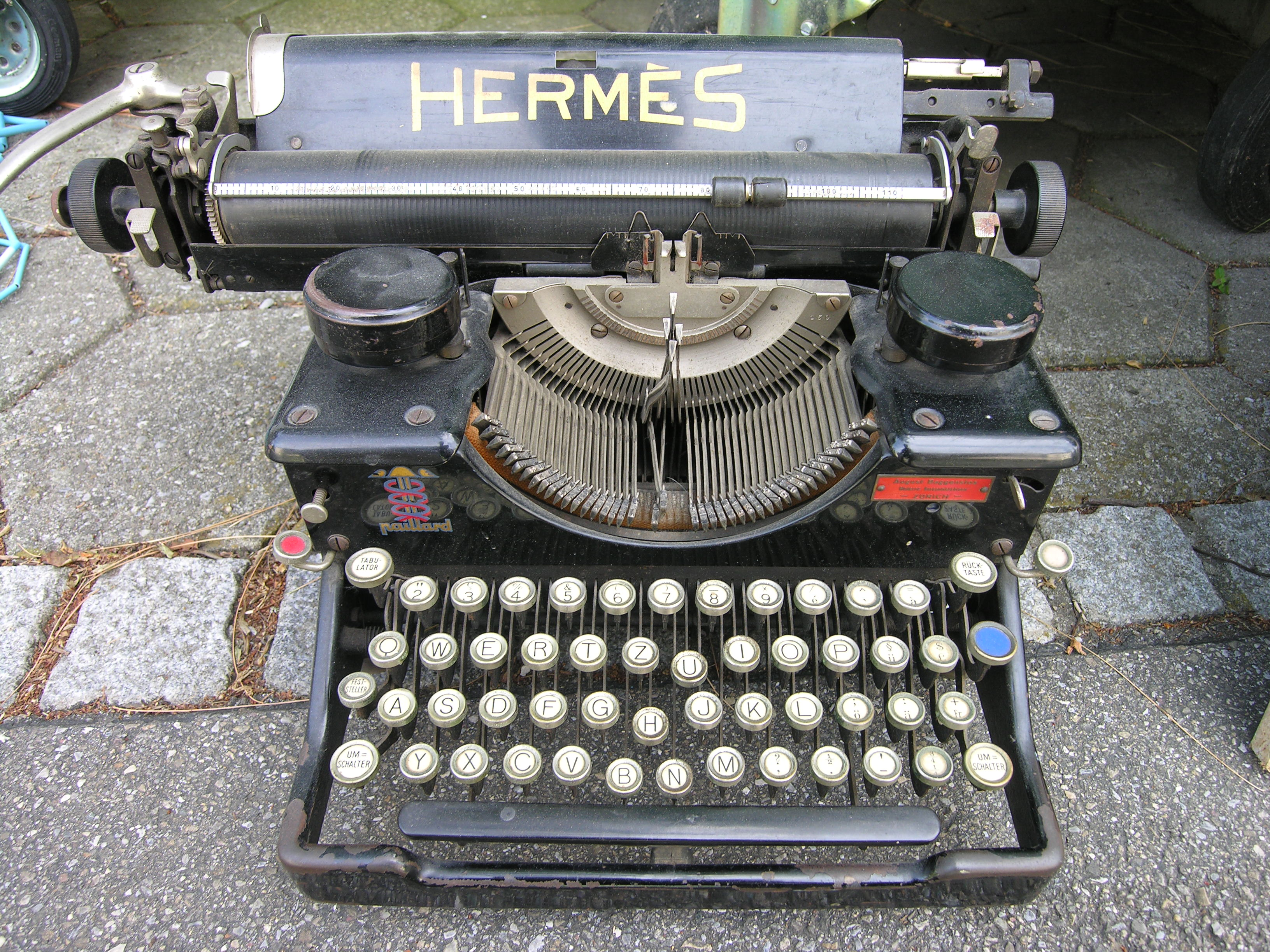 Typewriter "Hermes"